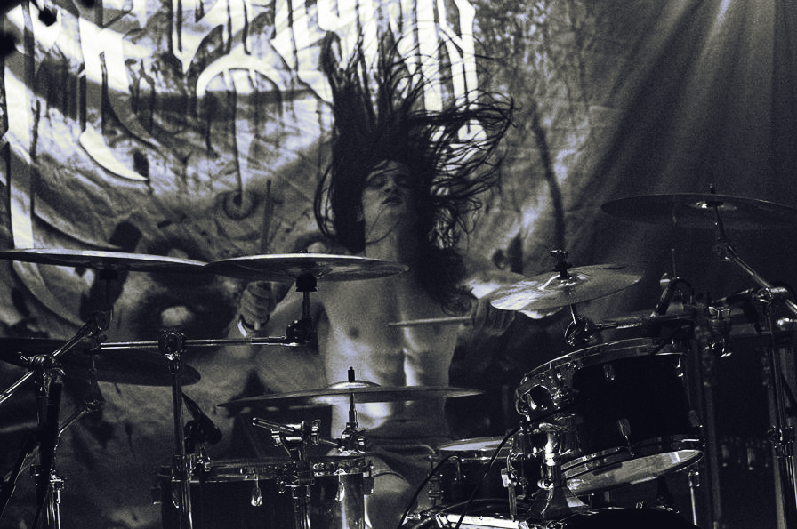 Inferum drummer Wouter Macare live at the Melkweg, Amsterdam